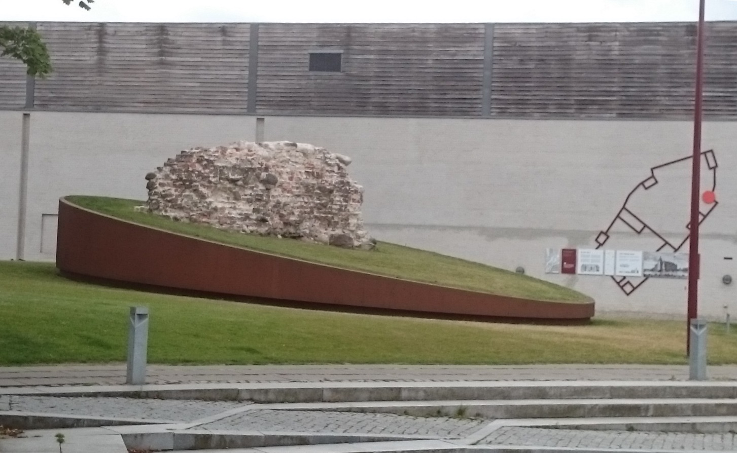 Last remaining ruins from Nykøbing Castle.